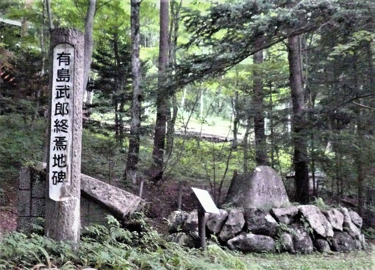 the death place of Takeo Arishima